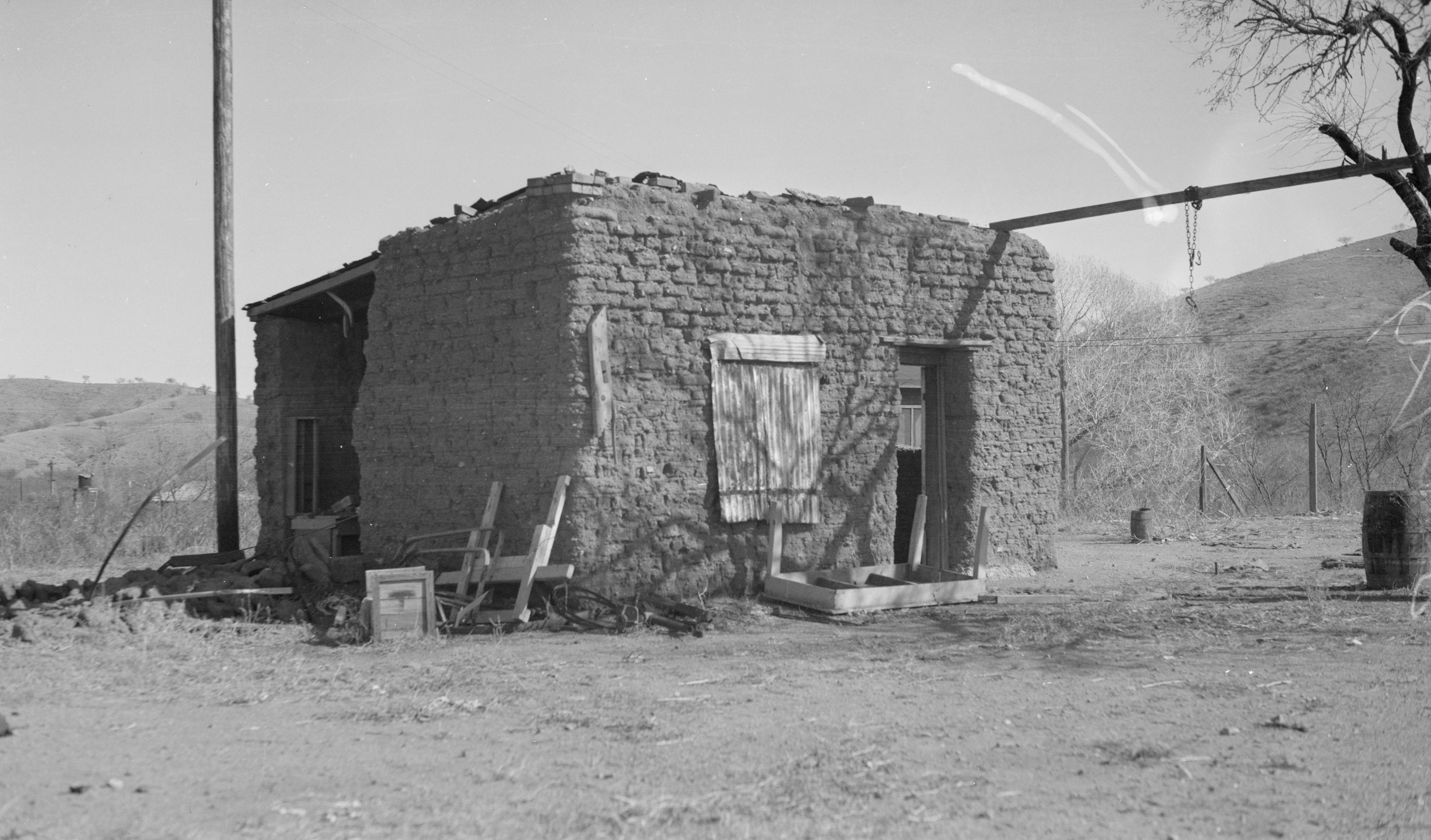 Original adobe house at the Pete Kitchen Ranch — southern Arizona. Located off U.S. Route 89 3.5 miles north of Nogales, in Santa Cruz County, Arizona, United States. Built in 1862, the ranch is listed on the National Register of Historic Places. Image courtesy of Historic American Buildings Survey—HABS.